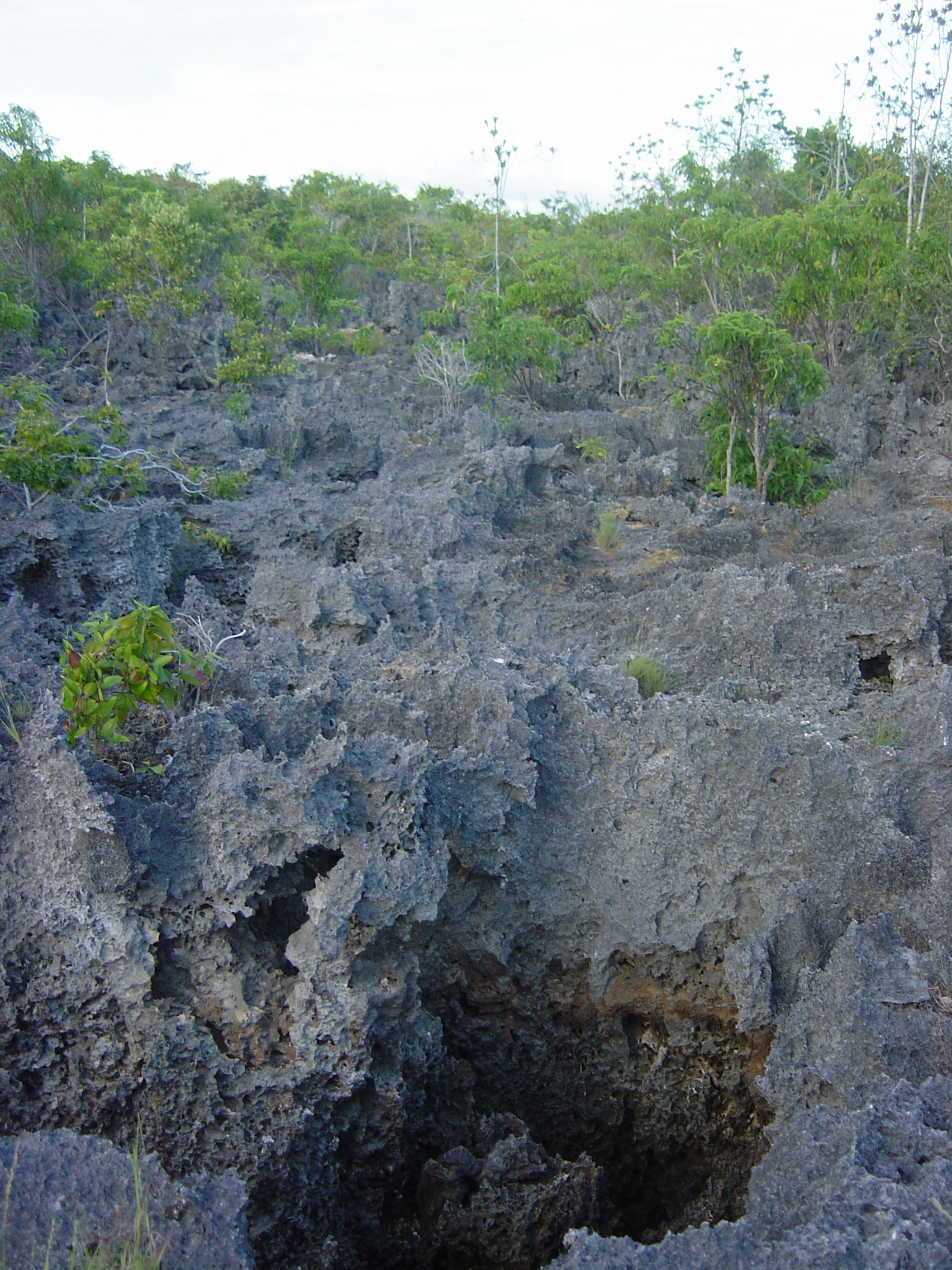 Aldabra Atoll (Seychelles)